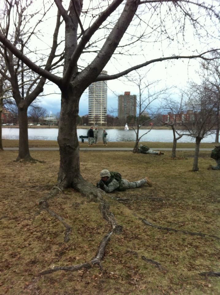 ROTC cadets on a urban field training exercise in Boston, Massachusetts.